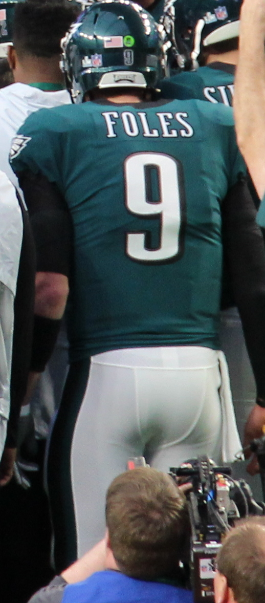 Philadelphia Eagles players huddle before leaving the field before Super Bowl LII.